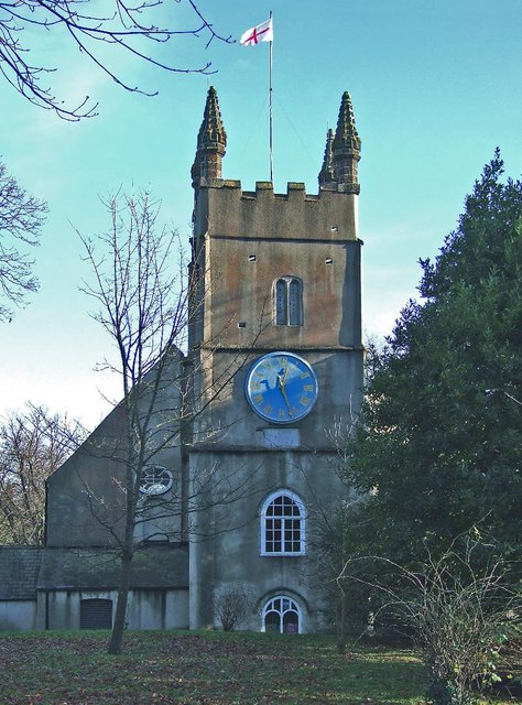 Stoke Damerel Church in winter